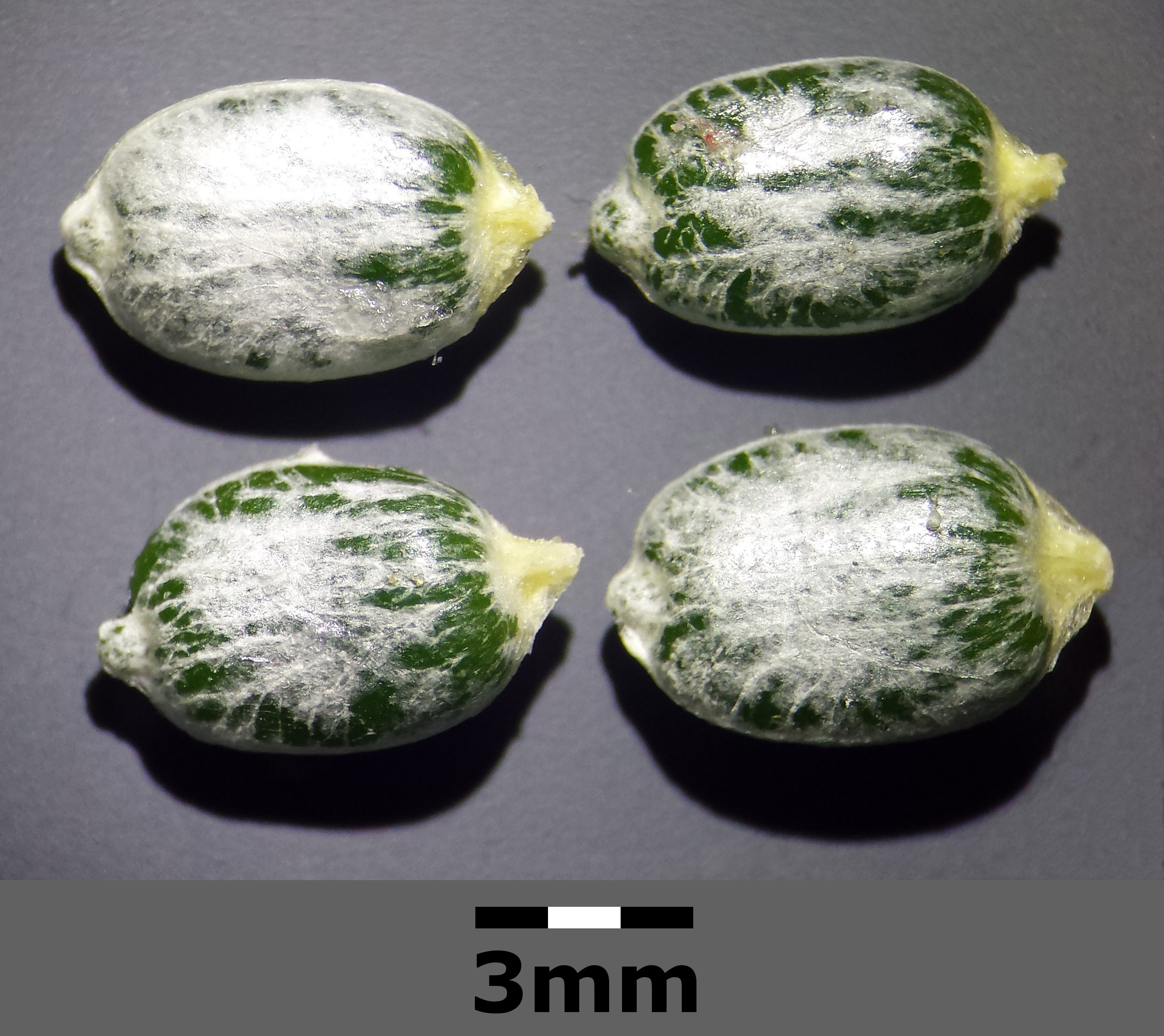 Seeds Taxon: Viscum laxum subsp. laxum (sensu Fischer et al. EfÖLS 2008; det. M. A. Fischer 2014-11-08) Location: Bierhäuslberg near Perchtoldsdorf, district Mödling, Lower Austria - ca. 400 m a.s.l. Habitat: Pinus nigra